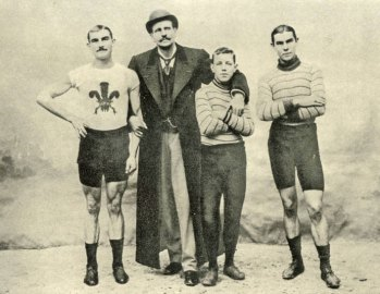 Welsh professional cyclists Arthur Linton (left), Jimmy Michael (middle) and Tom Linton (right) with their manager Choppy Warburton (suited). Taken between 1894 and 1895 the only time all three men were under Warburton's management.